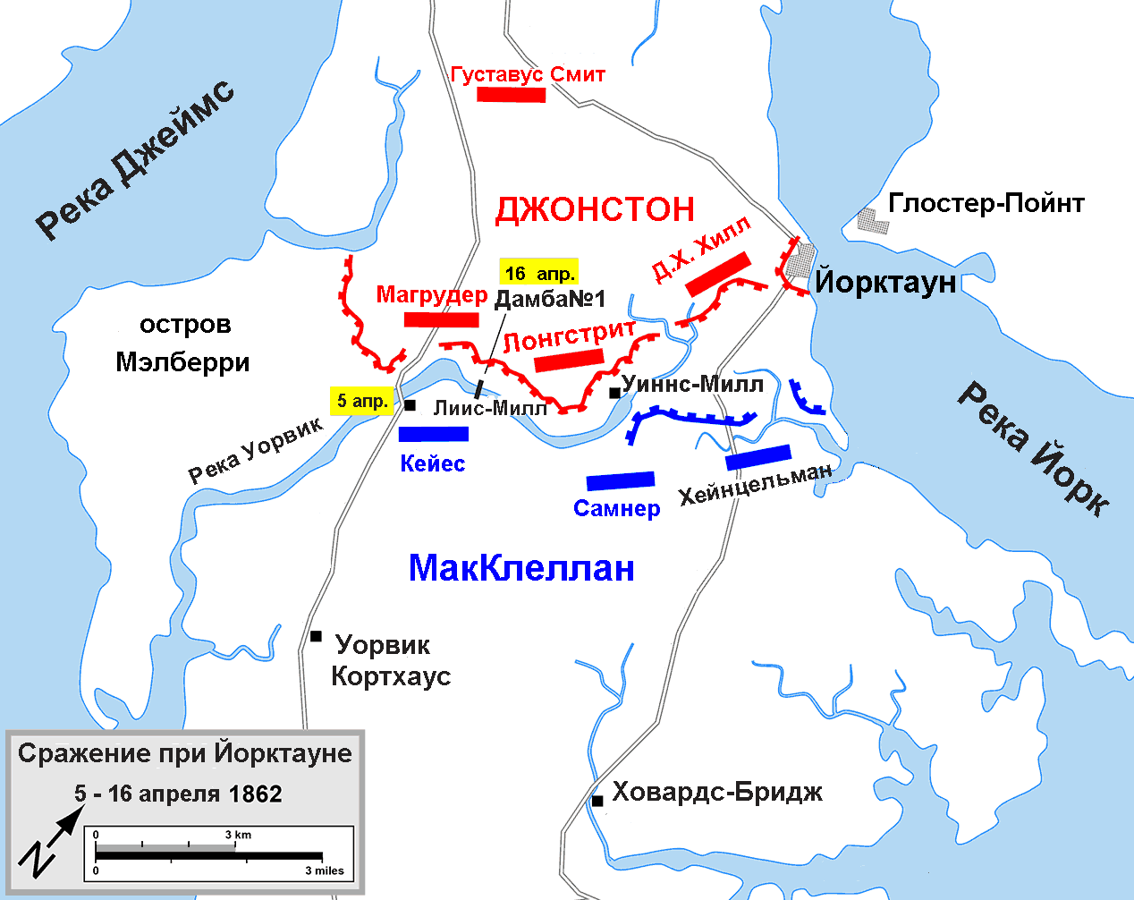 Map of the Battle of Yorktown of the Peninsula Campaign of the American Civil War. Russian version.